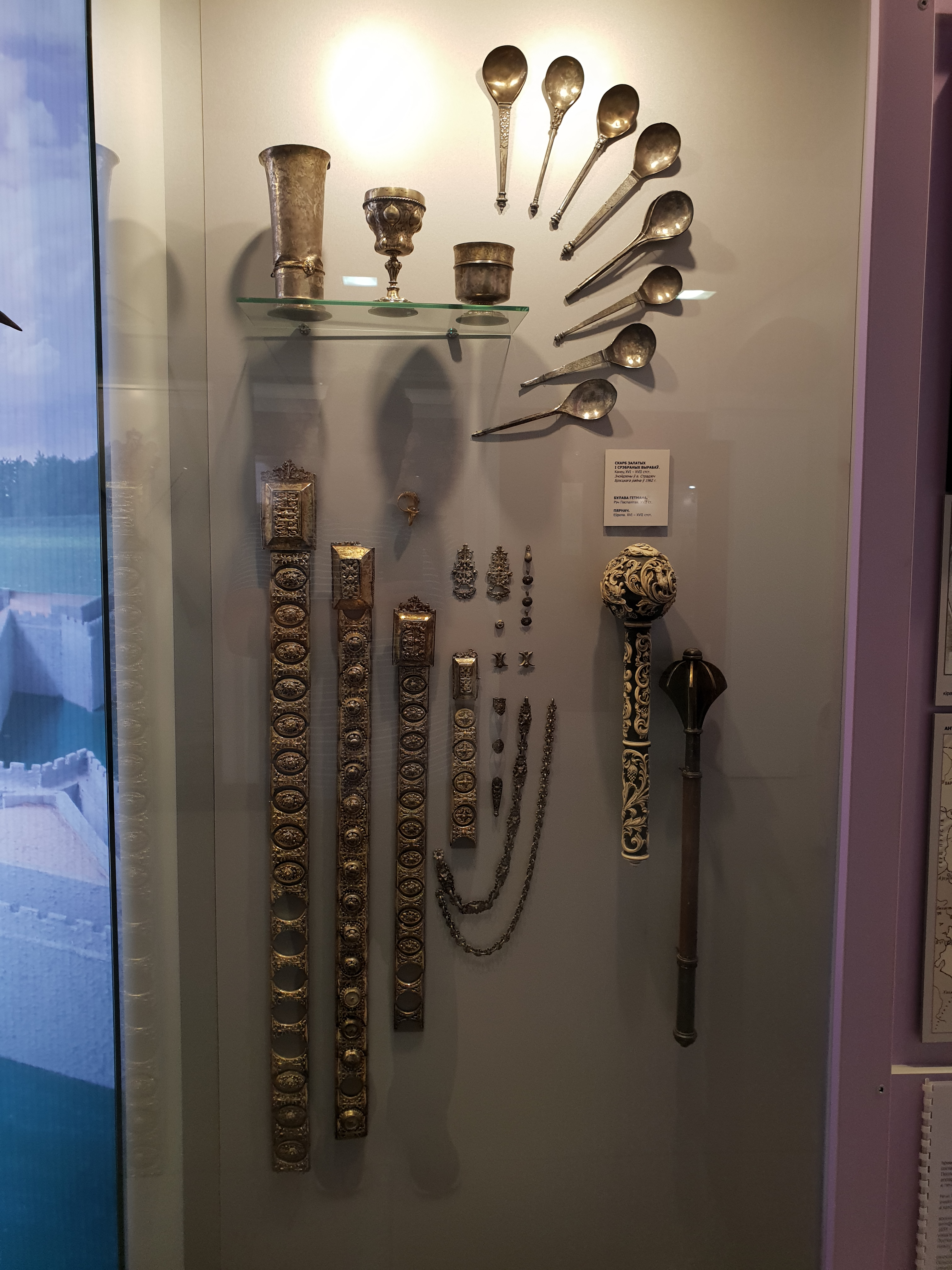 Brest Regional Homeland Museum 2019-08-23